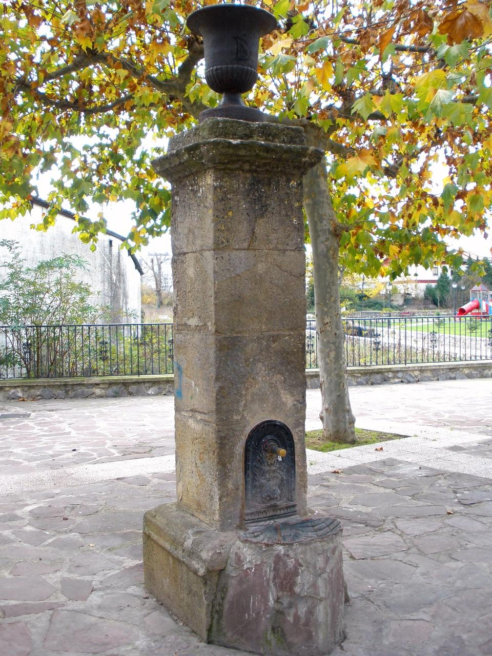 Fuente pública en el barrio de Ali, Vitoria-Gasteiz (País Vasco, España)